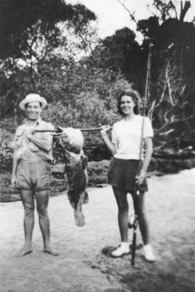 Large Rock Cod caught at the White Patch, Bribie Island, 1936 Fishing couple show off their big Cod which is suspended on a stick between them.